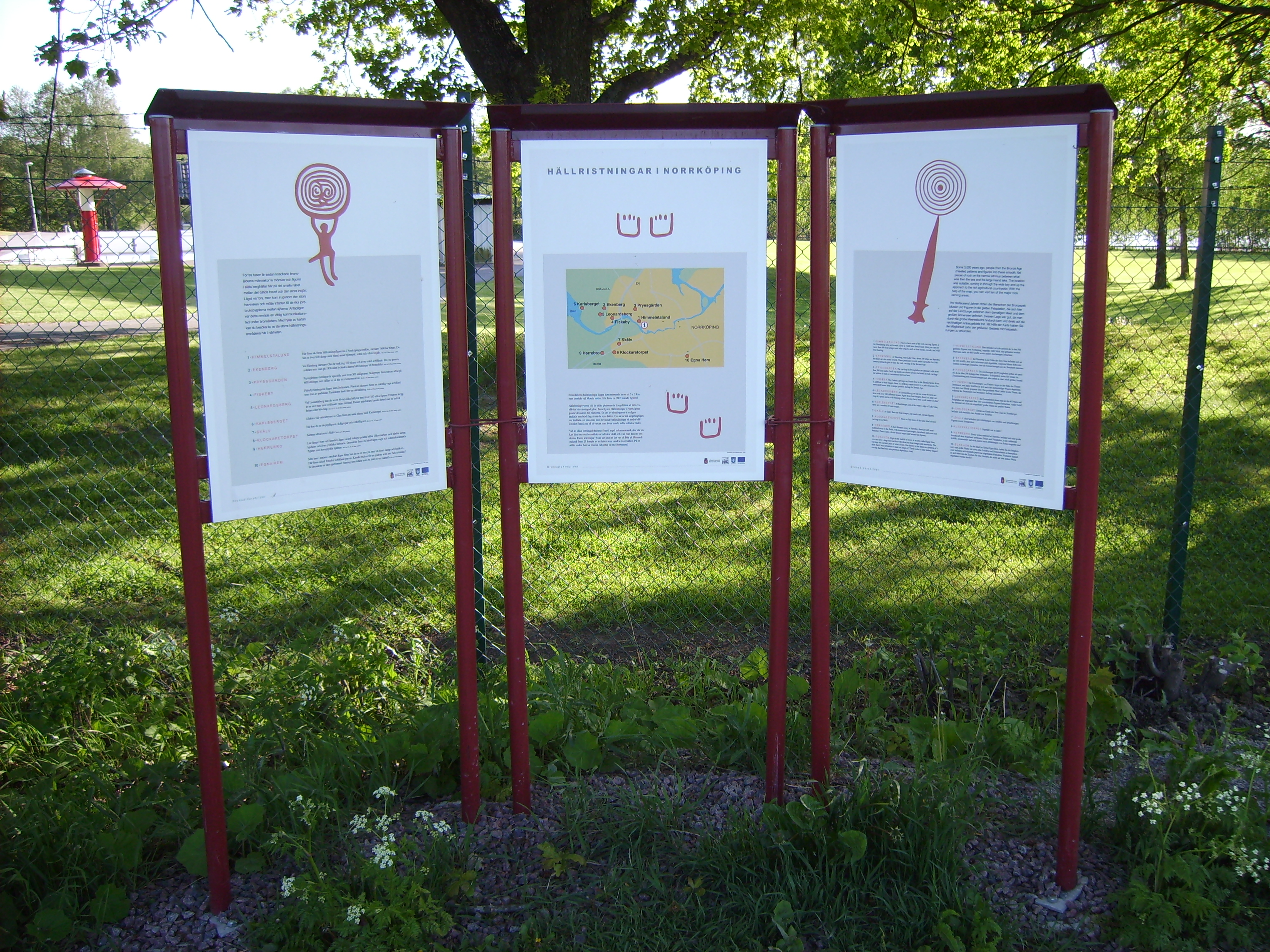 Information about petroglyphs in Norrköping, Östergötland, Sweden. Photo by Harri Blomberg.